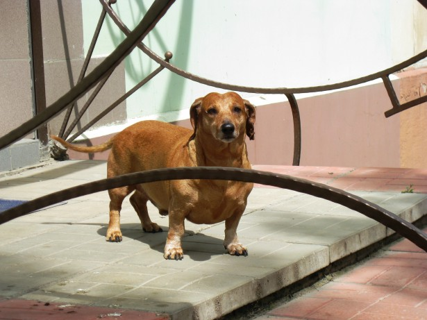 Photo dachshund